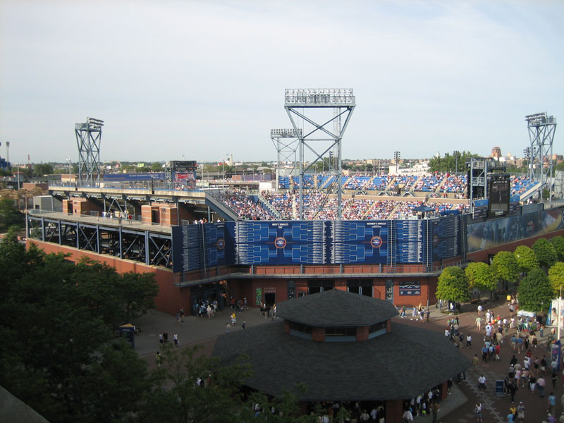 Louis Armstrong Stadium and the manual Drawboard as seen from Arthur Ashe Stadium